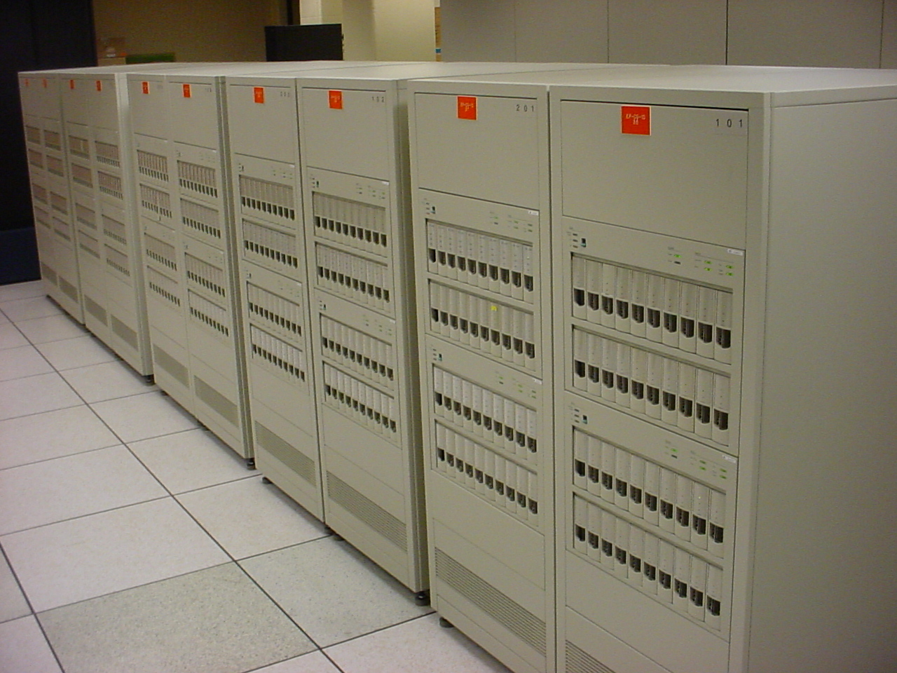 NCR Teradata Worldmark 5100 system, originally providing disk storage for Walmart, and now housed at Purdue. 5 compute racks with Pentium Pro processors, and a few GB of RAM each. 4 GB Seagate disks, with total capacity around 1.6 TB. Running NCR's version of Unix, MP-RAS.